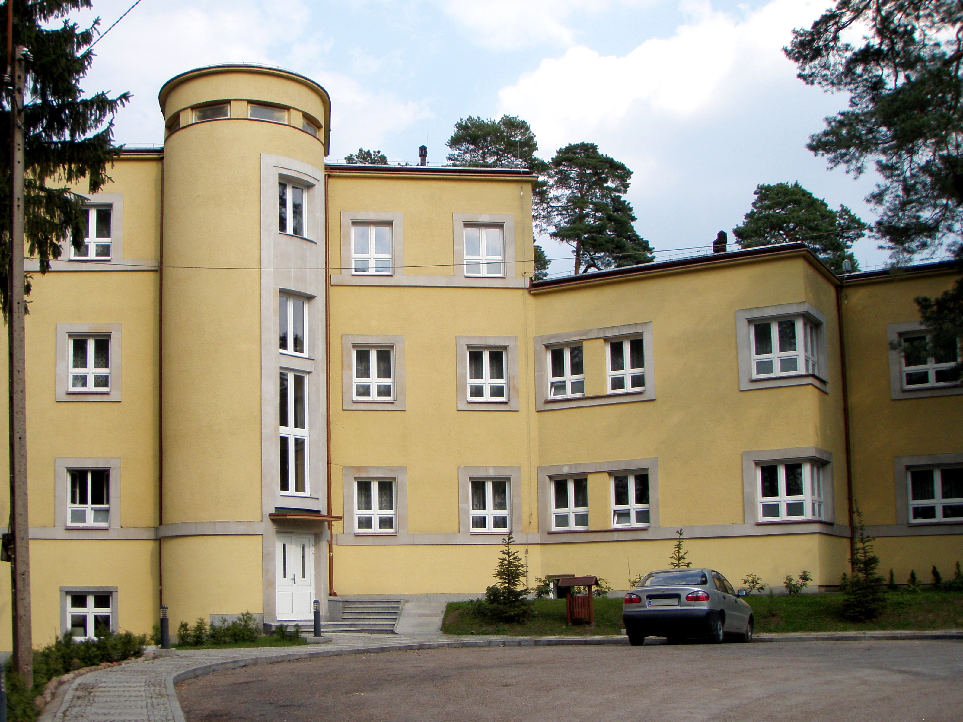 Officer Yacht Club in Augustów, Poland